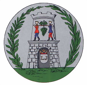 Coat of Arms of the County Baranya in the Kingdom of Hungary